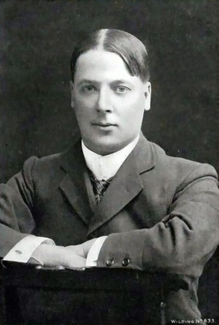 Hildebrand Aubrey Harmsworth.